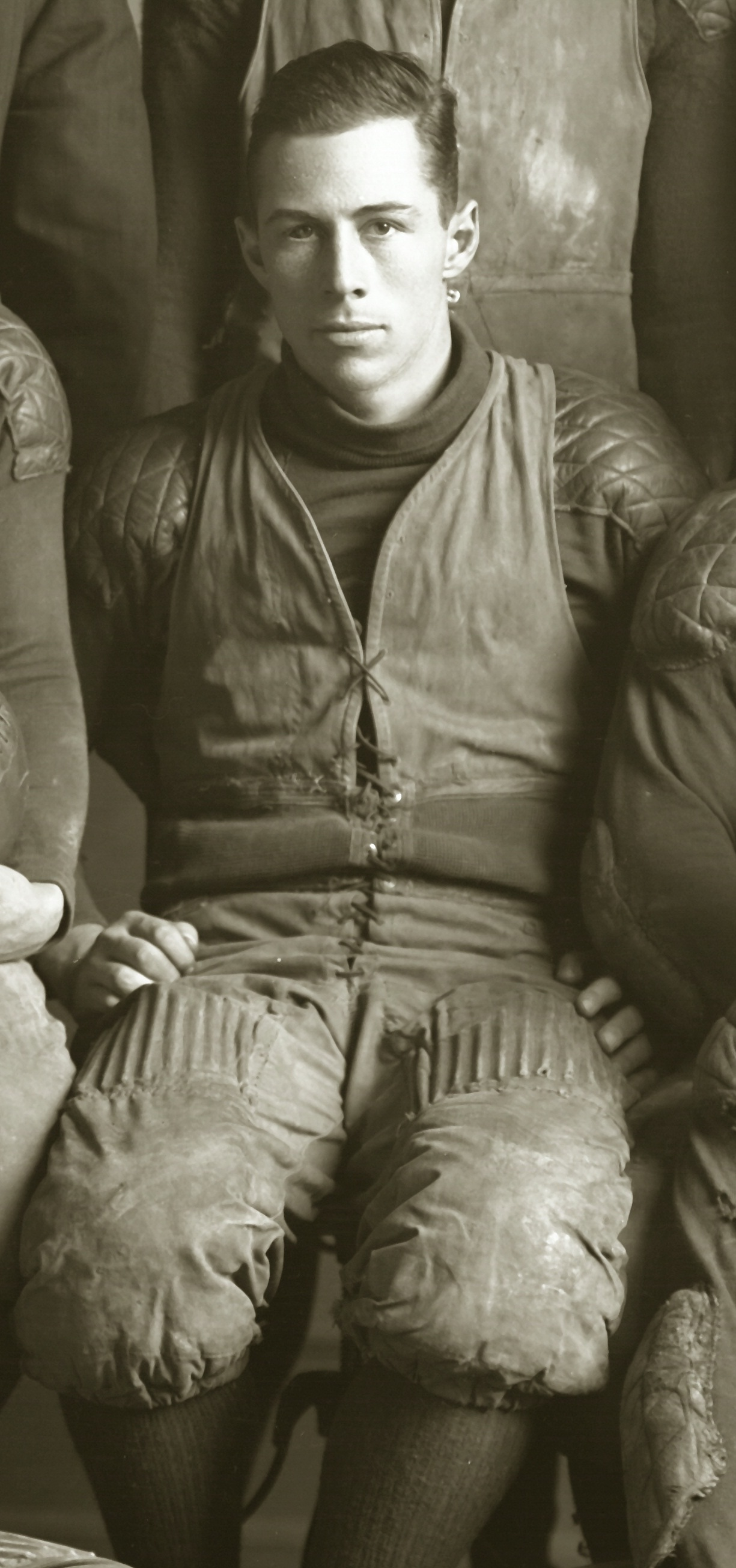 Photograph of Harry S. Hammond